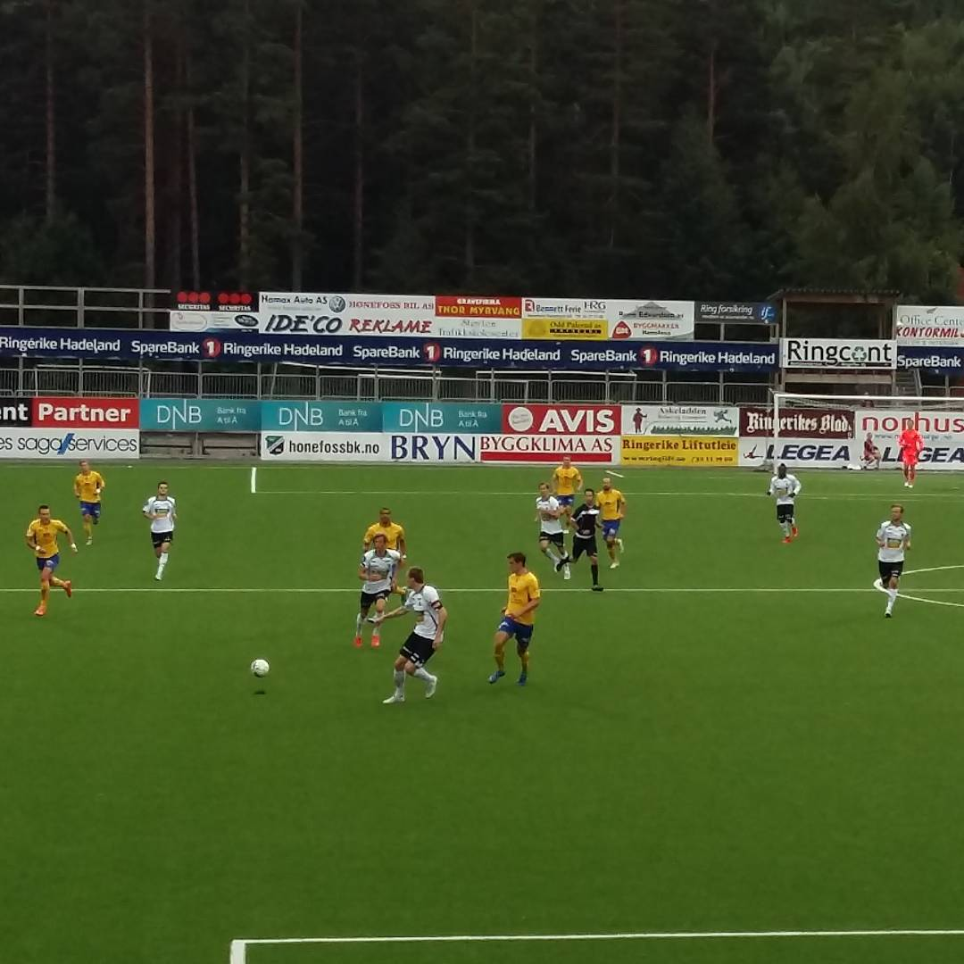 Norwegian soccer team Hønefoss Ballklubb in a match against Jerv in 2015.